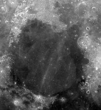 Mare Serenitatis sits just to the east of Mare Imbrium. It is located within the Serenitatis basin, which is of the Nectarian epoch. The material surrounding the mare is of the Lower Imbrian epoch, while the mare material is of the Upper Imbrian epoch. The mare basalt covers a majority of the basin and overflows into Lacus Somniorum to the northeast. The most noticeable feature is the crater Posidonius on the northeast rim of the mare. The ring feature to the west of the mare is indistinct, except for Montes Haemus. Mare Serenitatis connects with Mare Tranquillitatis to the southeast.